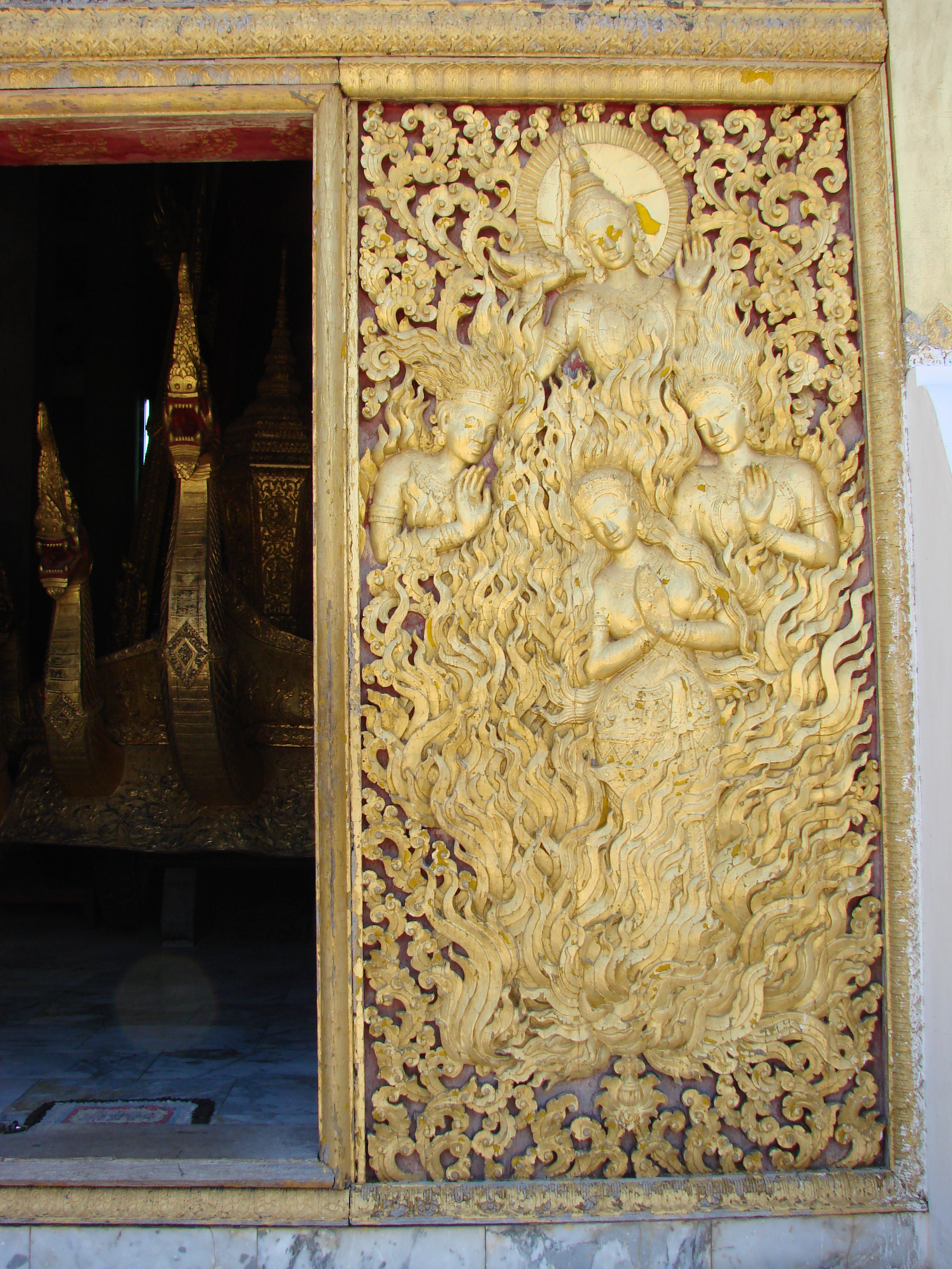 A finely decorated door to the 16th century Buddhist Wat Xieng Thong temple at Luang Prabang, Laos. This temple was constructed in 1560.